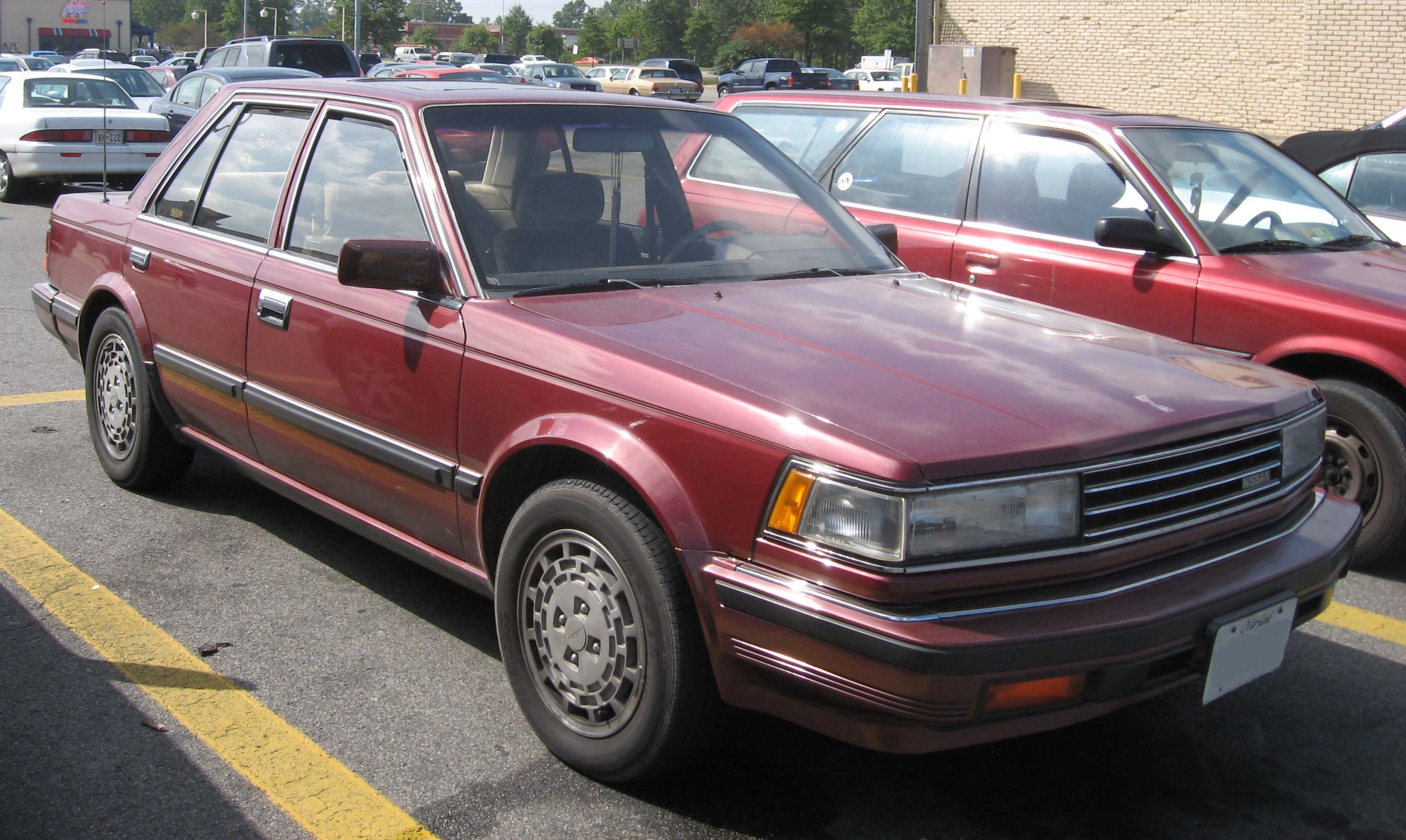 1985-1986 Nissan Maxima photographed in Waldorf, Maryland, USA.